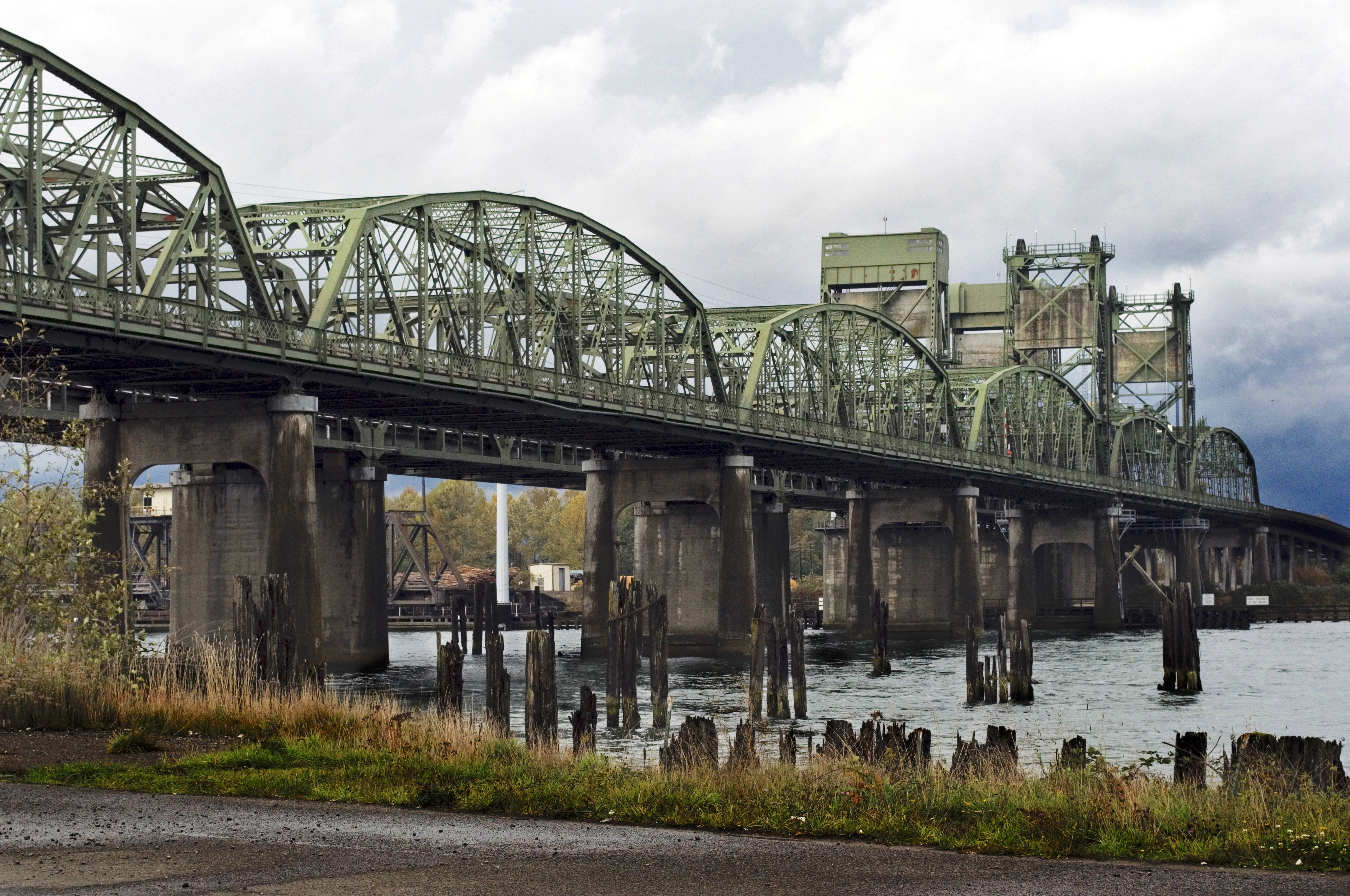 The Snohomish River Bridge on Washington state highway SR 529, located just north of Everett, Washington, is a pair of truss bridges that each includes a vertical-lift span. This view is from the south-southeast. The northbound bridge, closest to the camera in this photo, was built in 1927 and originally carried two-way traffic. The southbound bridge, visible in the background, was built in 1954 and is wider – as can be seen here from the wider lift towers. In the lower-left background, the swing span of the parallel railroad bridge can be see, turned perpendicular to the rail line – leaving a channel open for river traffic, likely the normal position when no train is nearby.